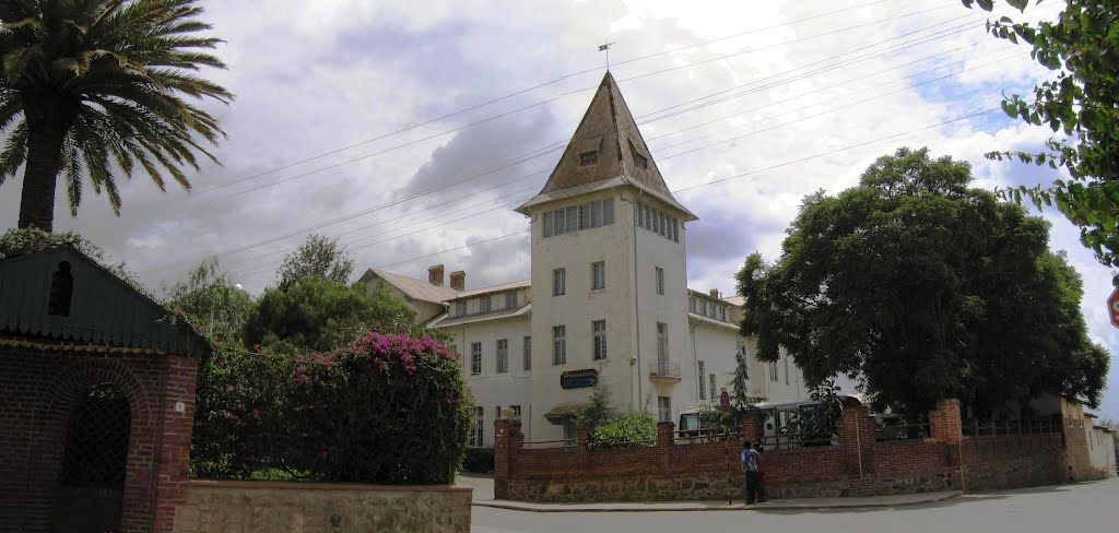 Embasoira hotel Asmara, Eritrea